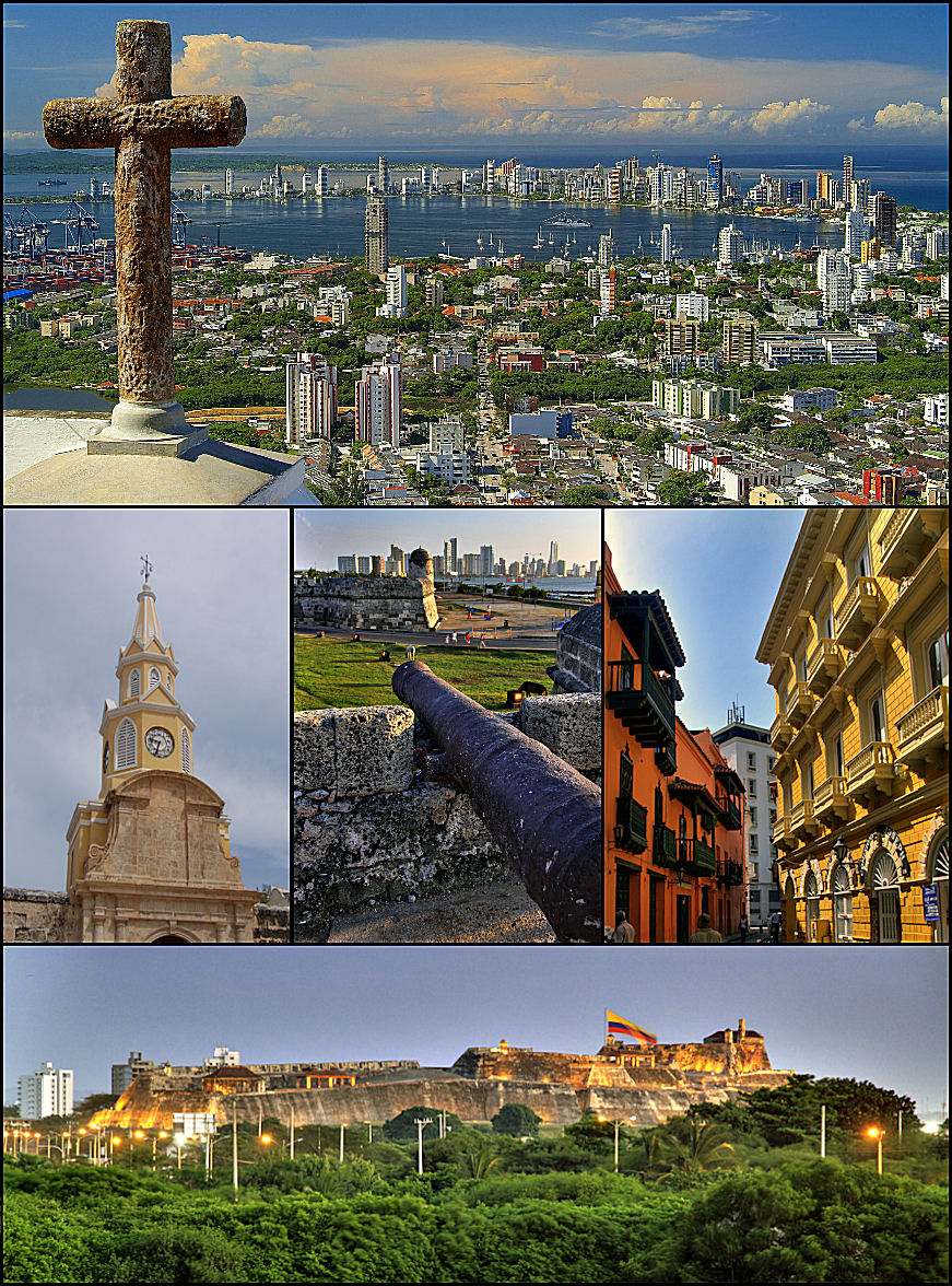 Cartagena, in Colombia